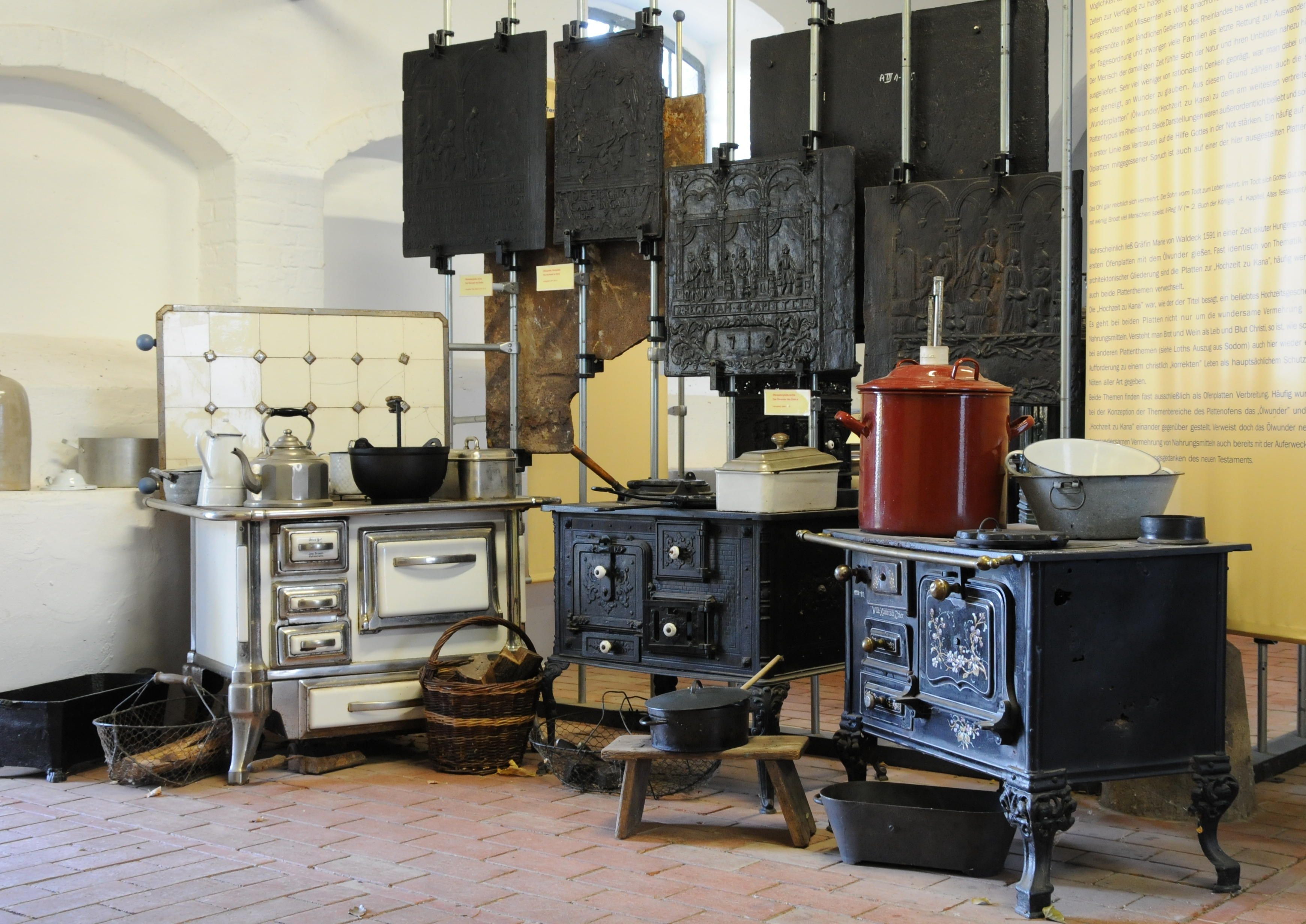 Takenplatten - a kind of oven plates in the open air museum Roscheider Hof, Konz Germany Die Ausstellung von Takenplatten im Freilichtmuseum Roscheider Hof Konz Deutschland